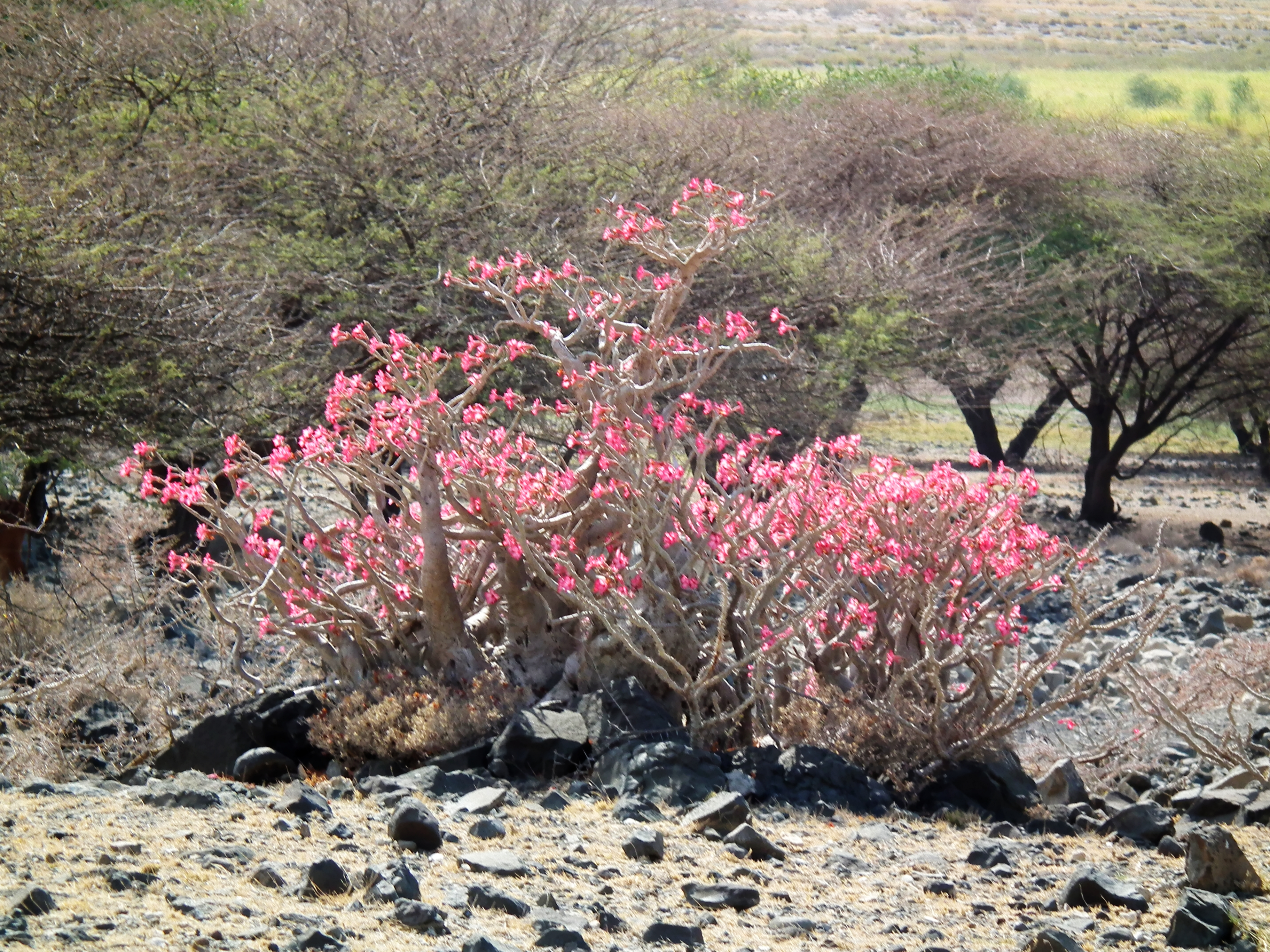 Desert rose, Adenium obesum in Tanzania